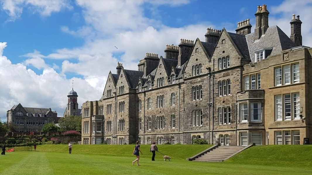 A view of Bishopshall House at St Leonards School. The background features the St Leonards clock tower and the main school building, both of which are also included within the school grounds.